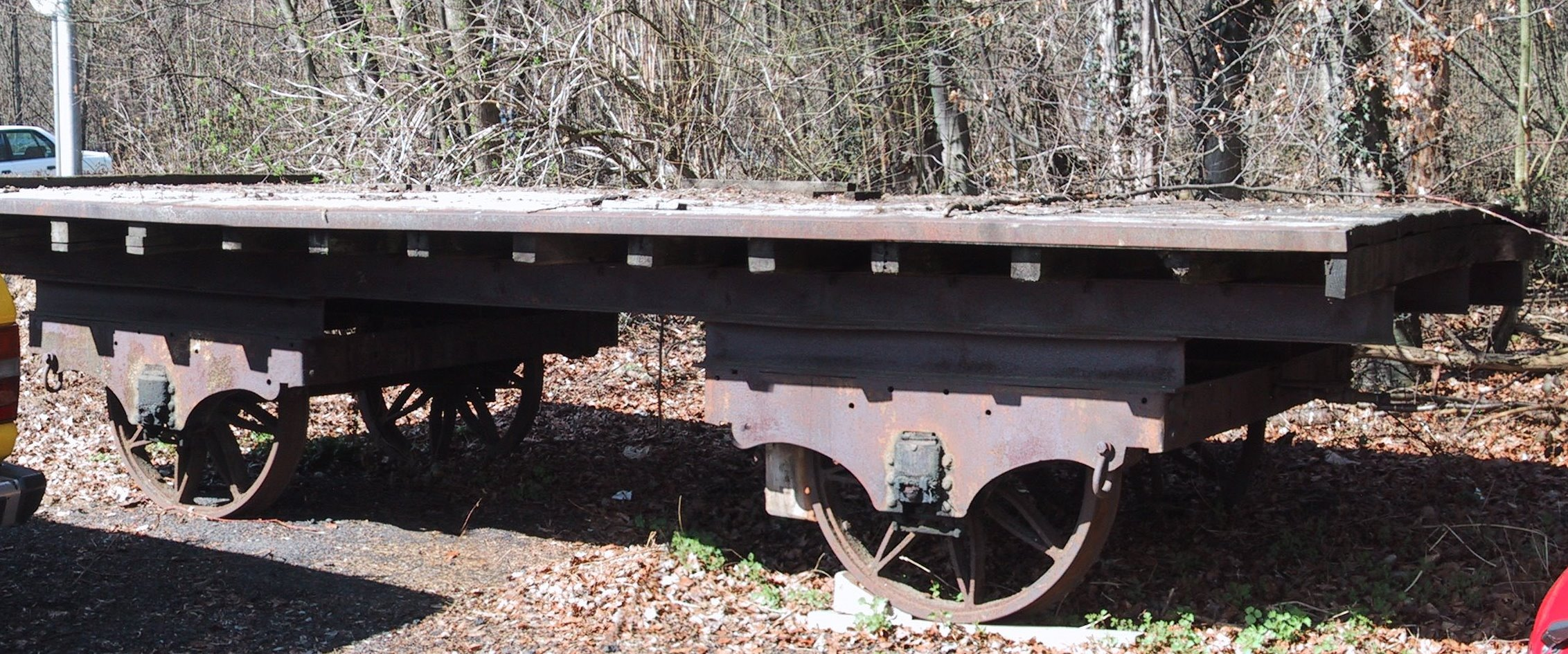 Trolley made from an original underframe of a Swiss Northern Railway car, discovered in 2005 while decommissioning an old industrial plant near Zurich.